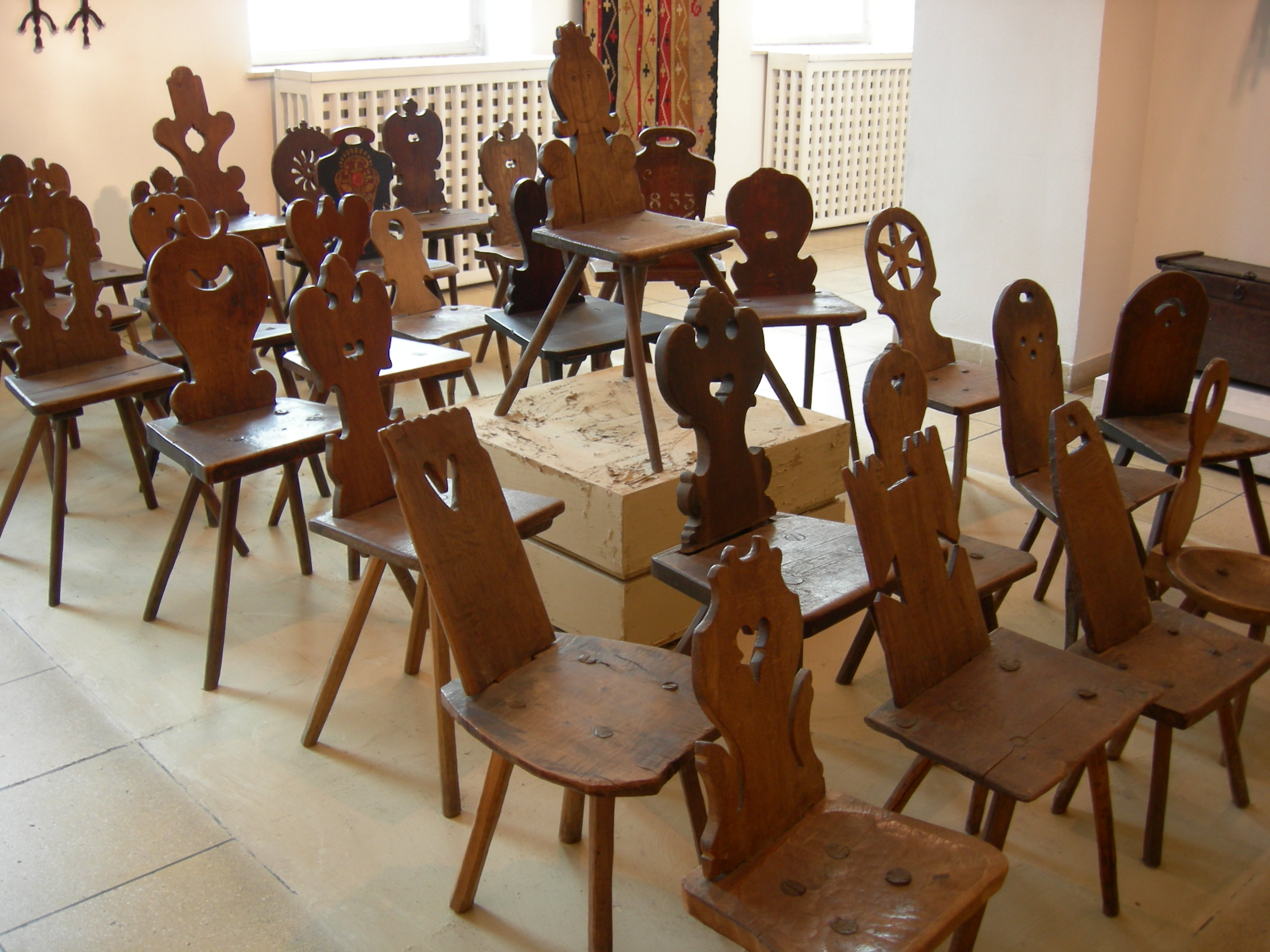 Chairs, Museum of the Romanian Peasant, Bucharest, Romania.